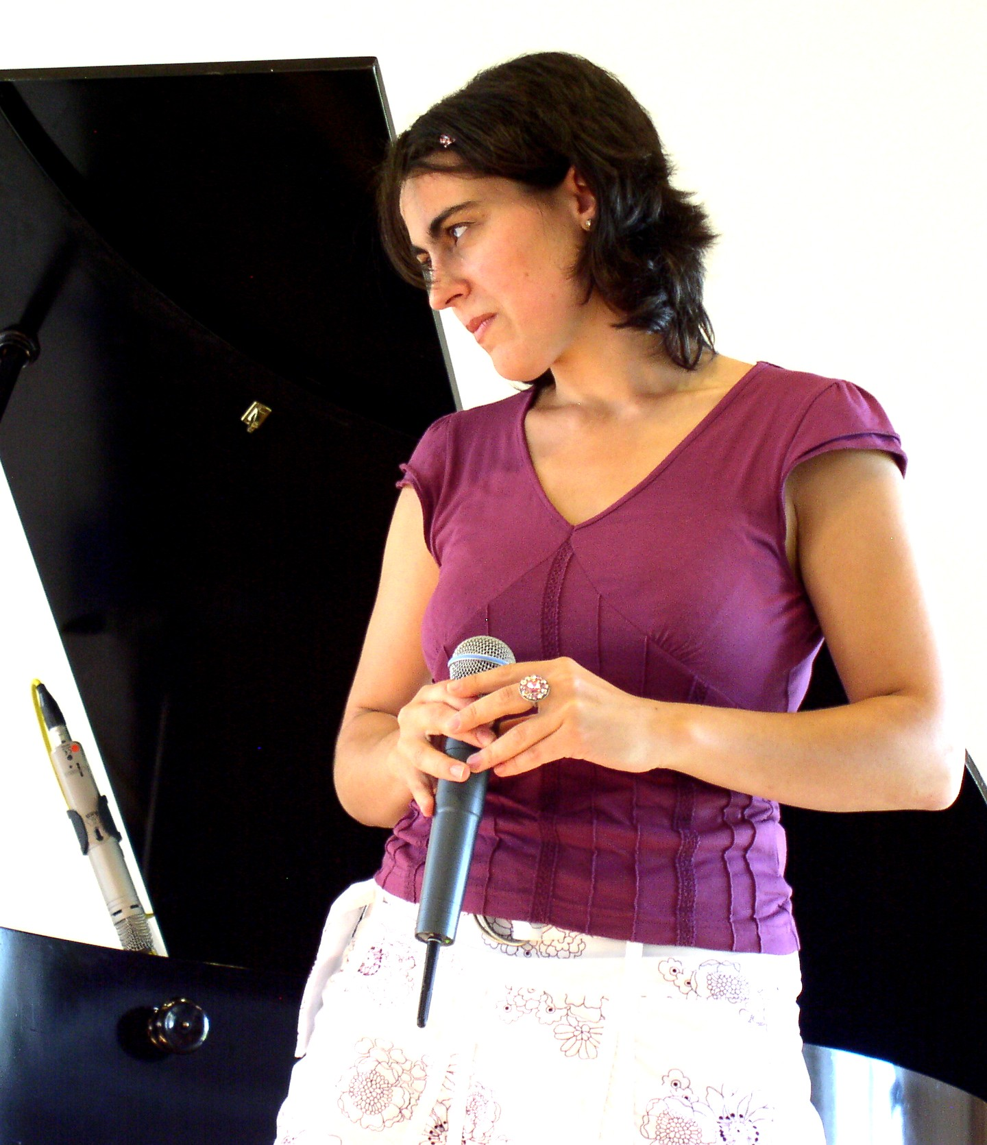 Sarah Kaiser, concert picture, 07/09/2006, Gemeindehaus, Wilhelmsdorf